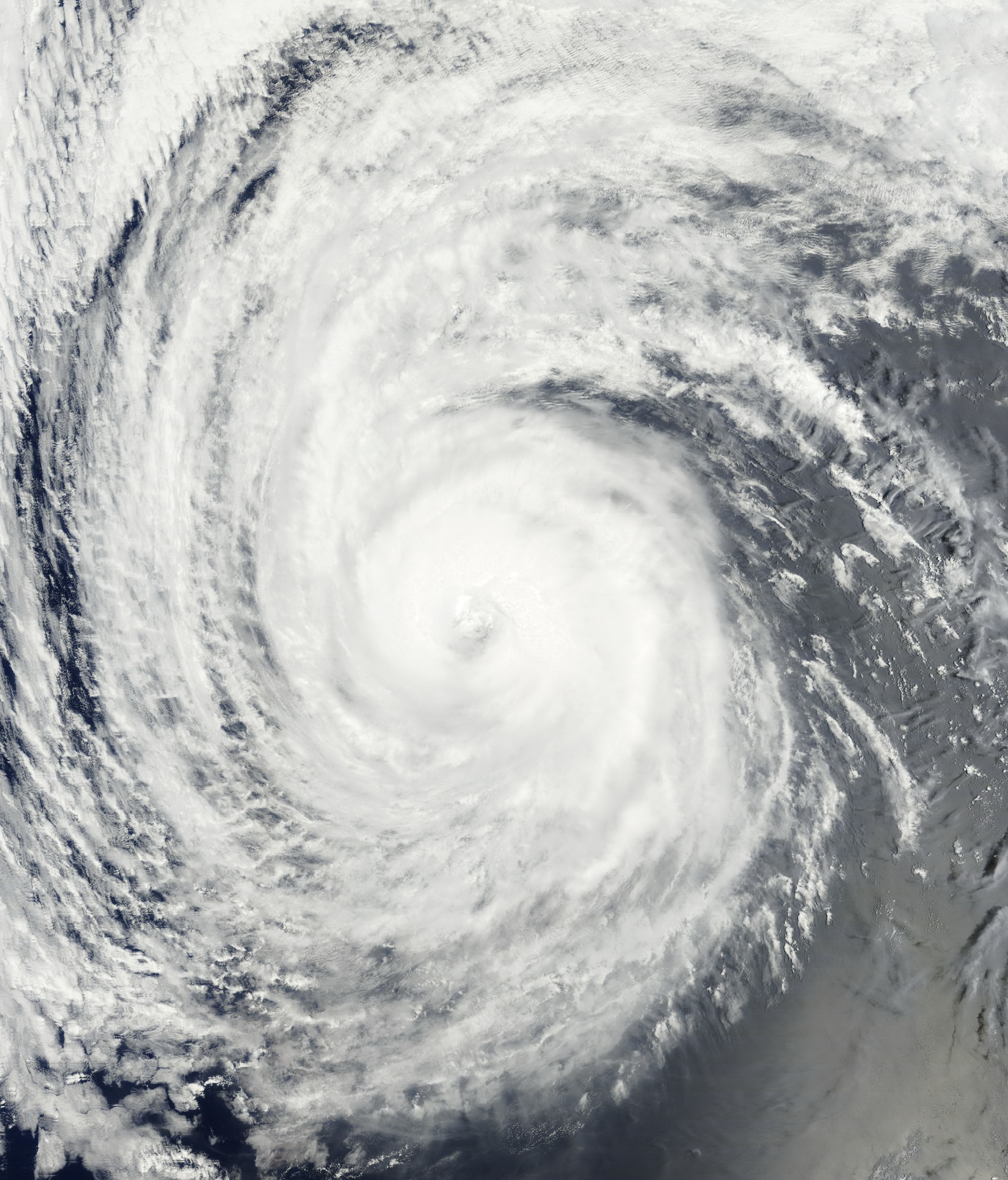 Hurricane Guillermo of 2009.